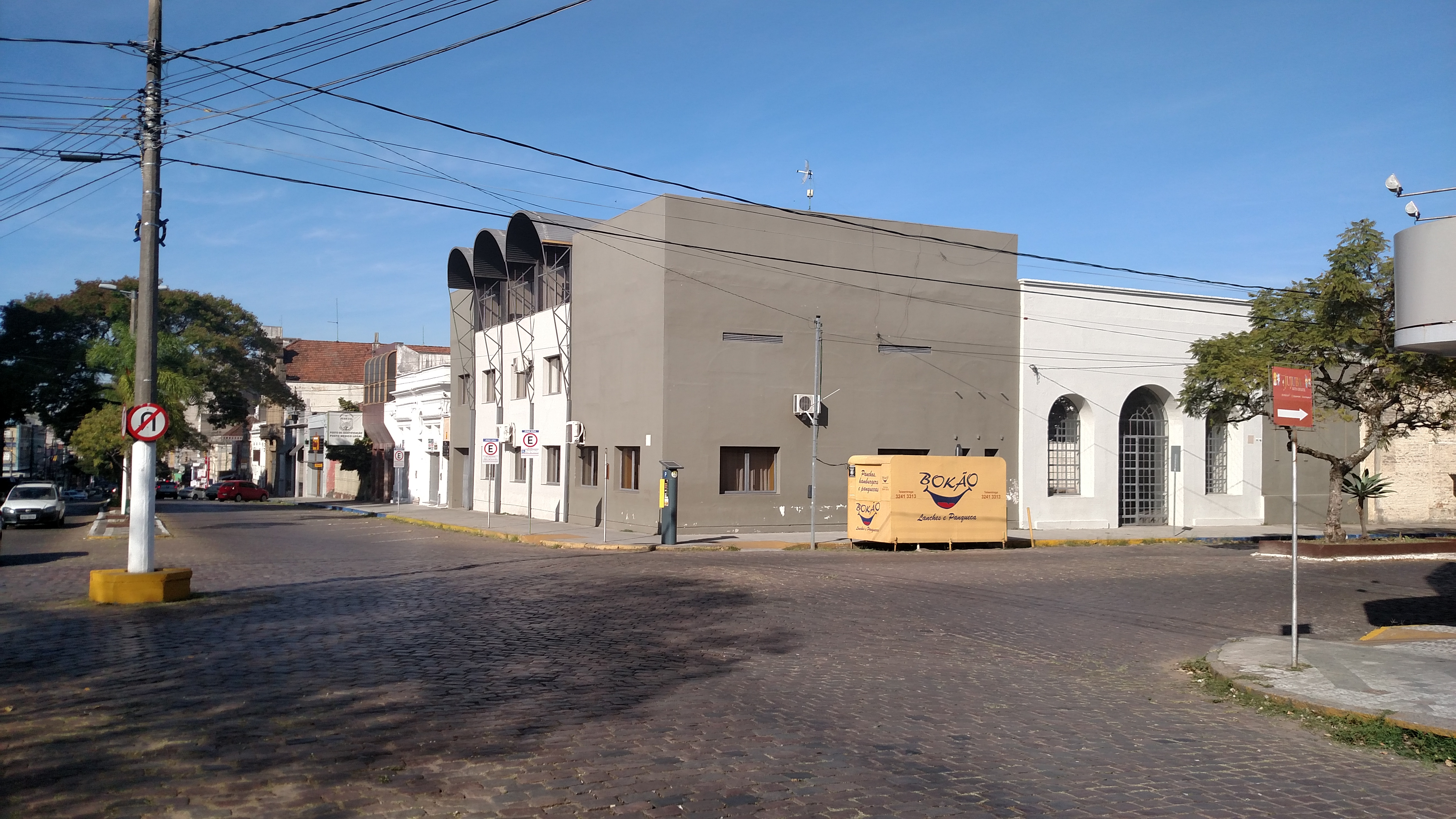 R. Carlos Mangabeira, 20 - Centro, Bagé - RS, 96400-490